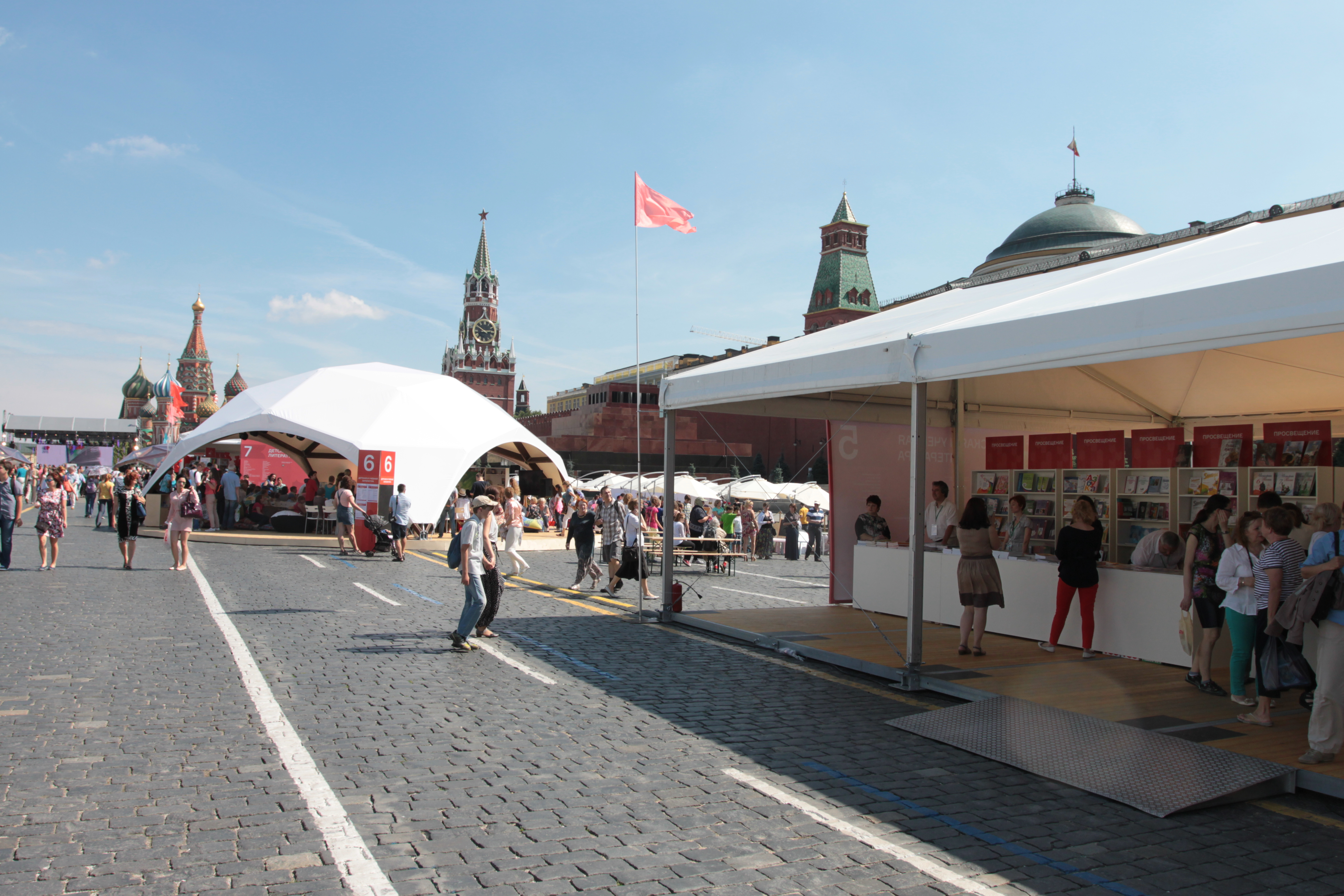 Стенд издательства «Просвещение» на Фестивале «Книги России» на Красной площади